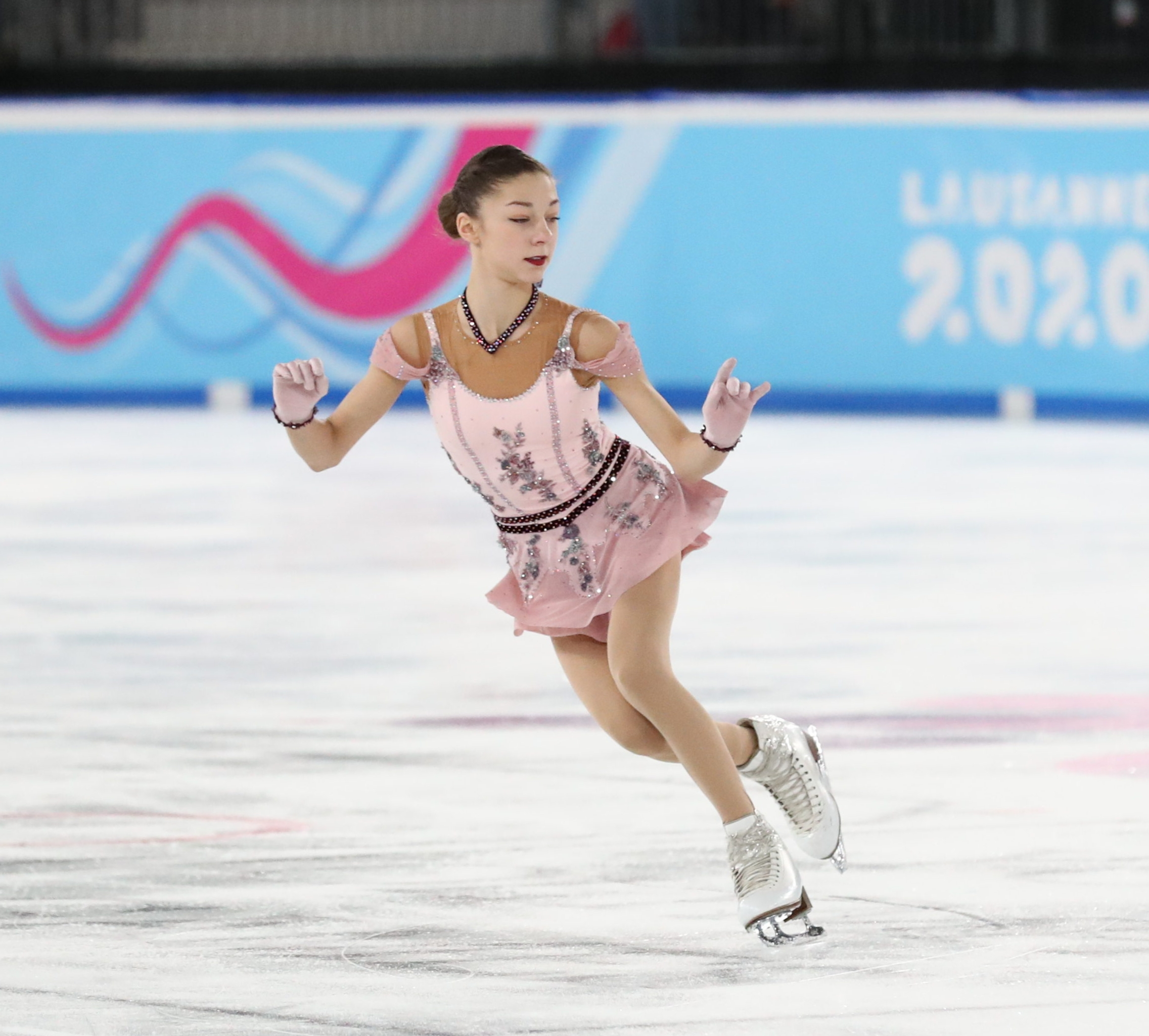 Women Single Figure Skating Short Program at the 2020 Winter Youth Olympics in Lausanne